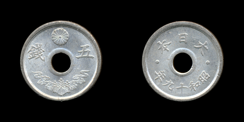 5sen-S19